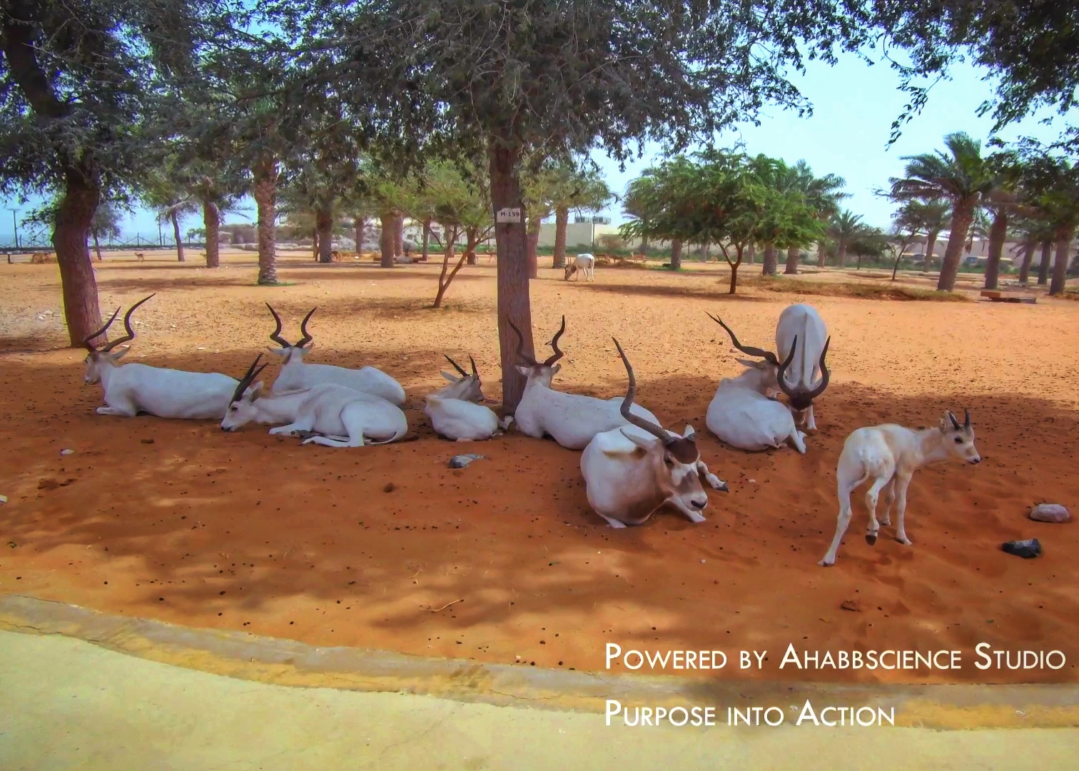 Markhors, Blackbucks and Oryxes at Dubai Safari Park photo by Ahabbscience Studio Pakistan.